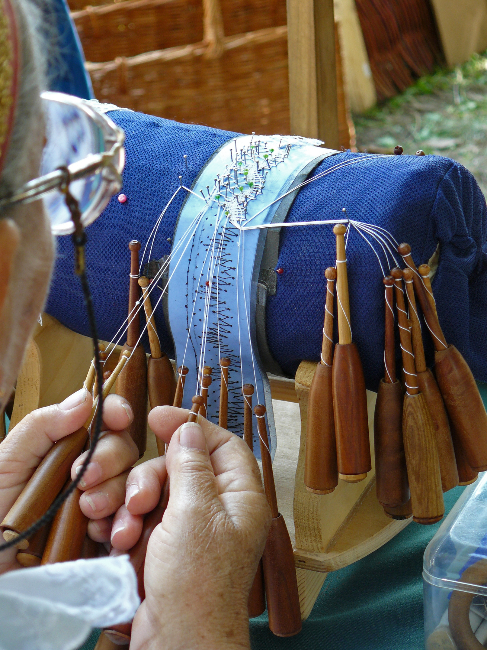 This image was taken on the Festival of Folk Art, Budapest